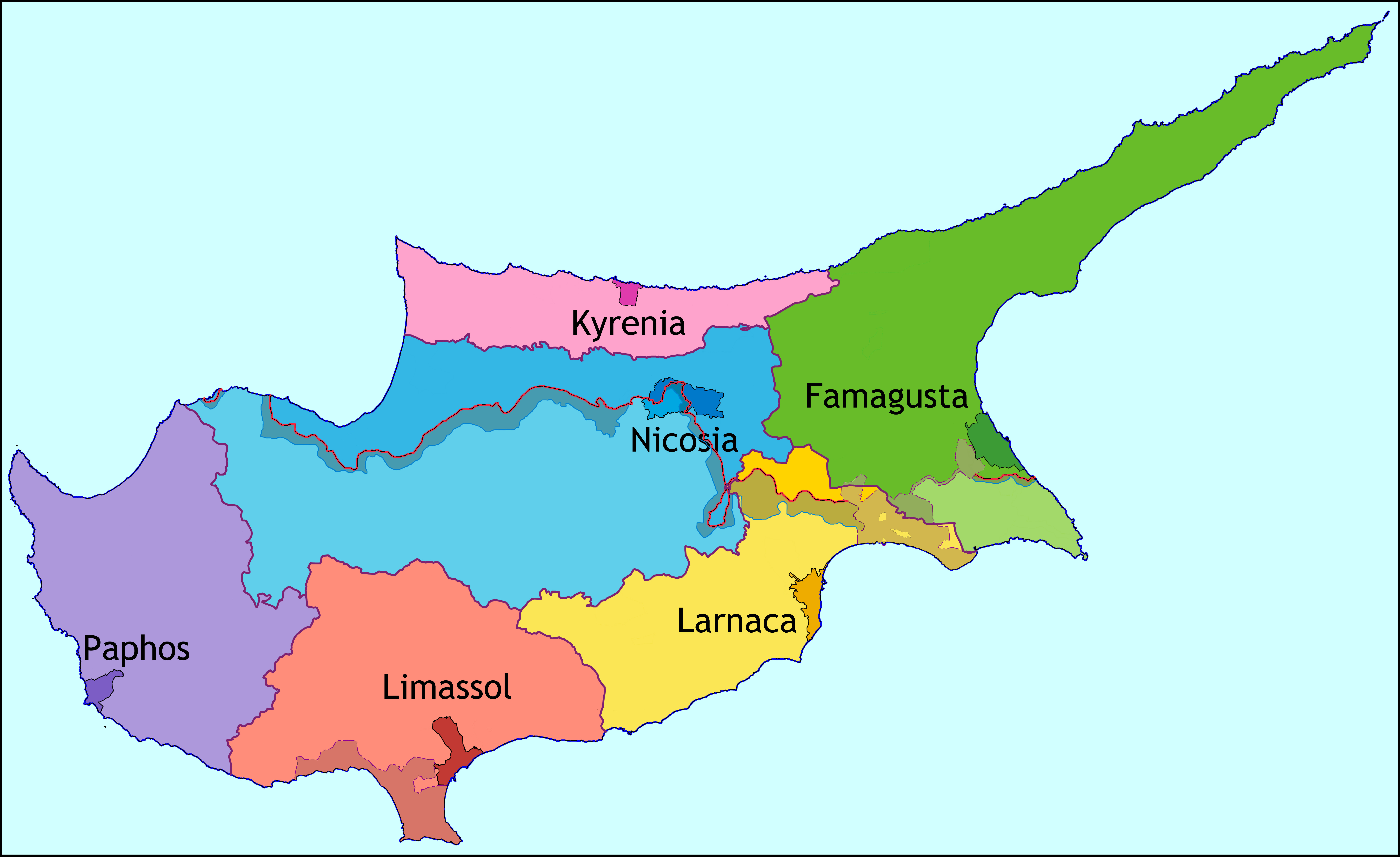 Map of Cyprus showing districts